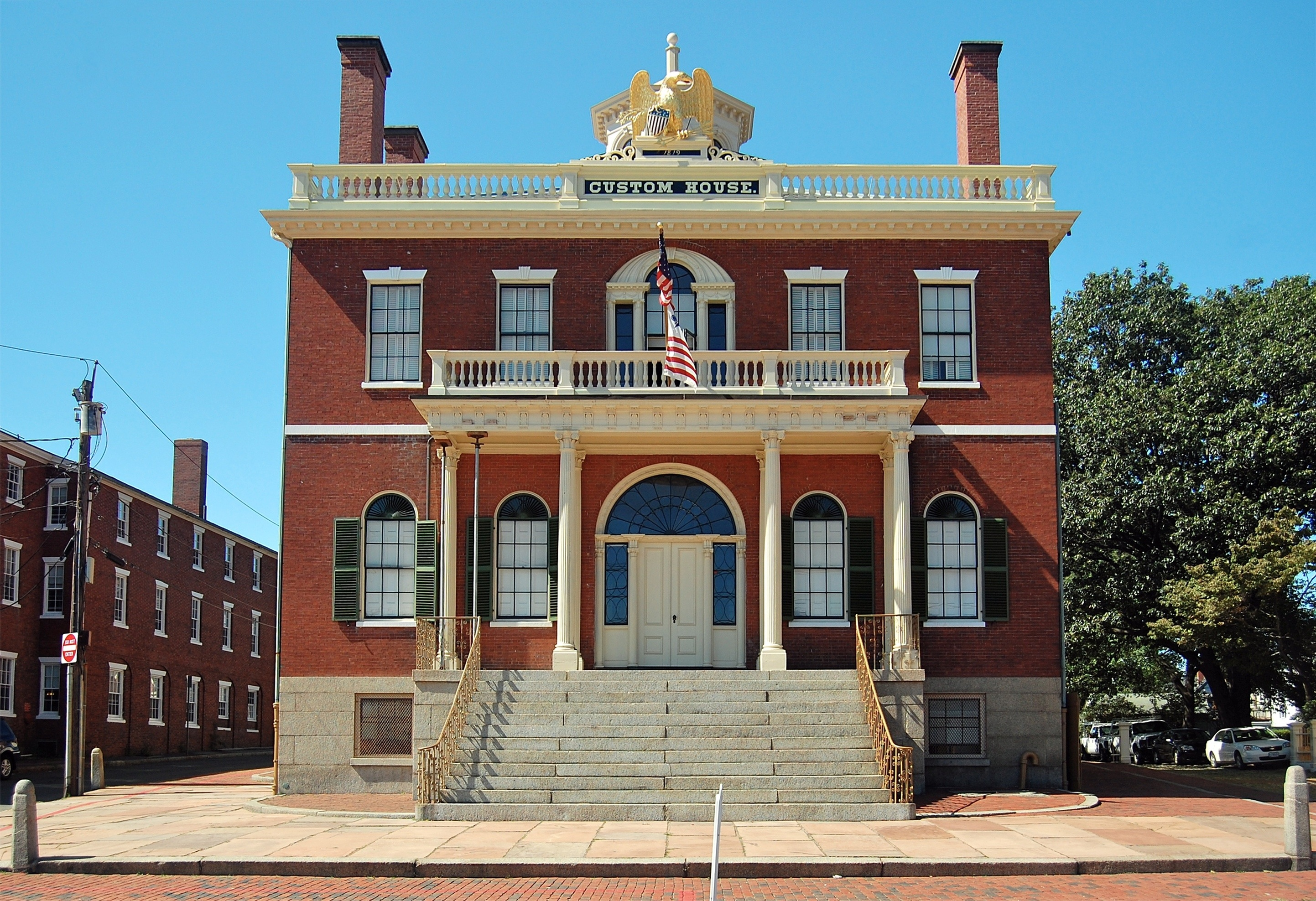 Custom House of Salem, Massachusetts